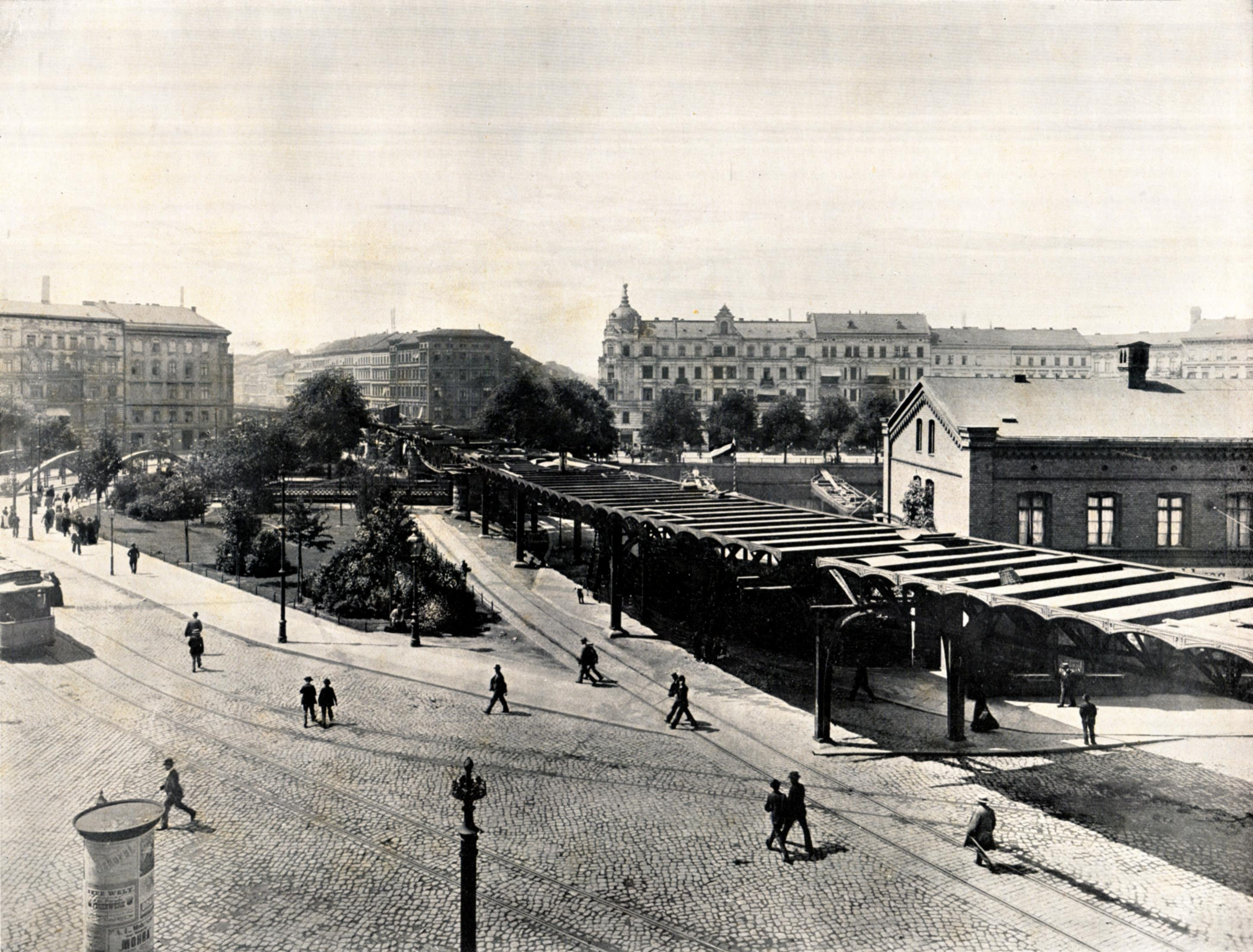 Construction of the elevated railway at Wassertorplatz